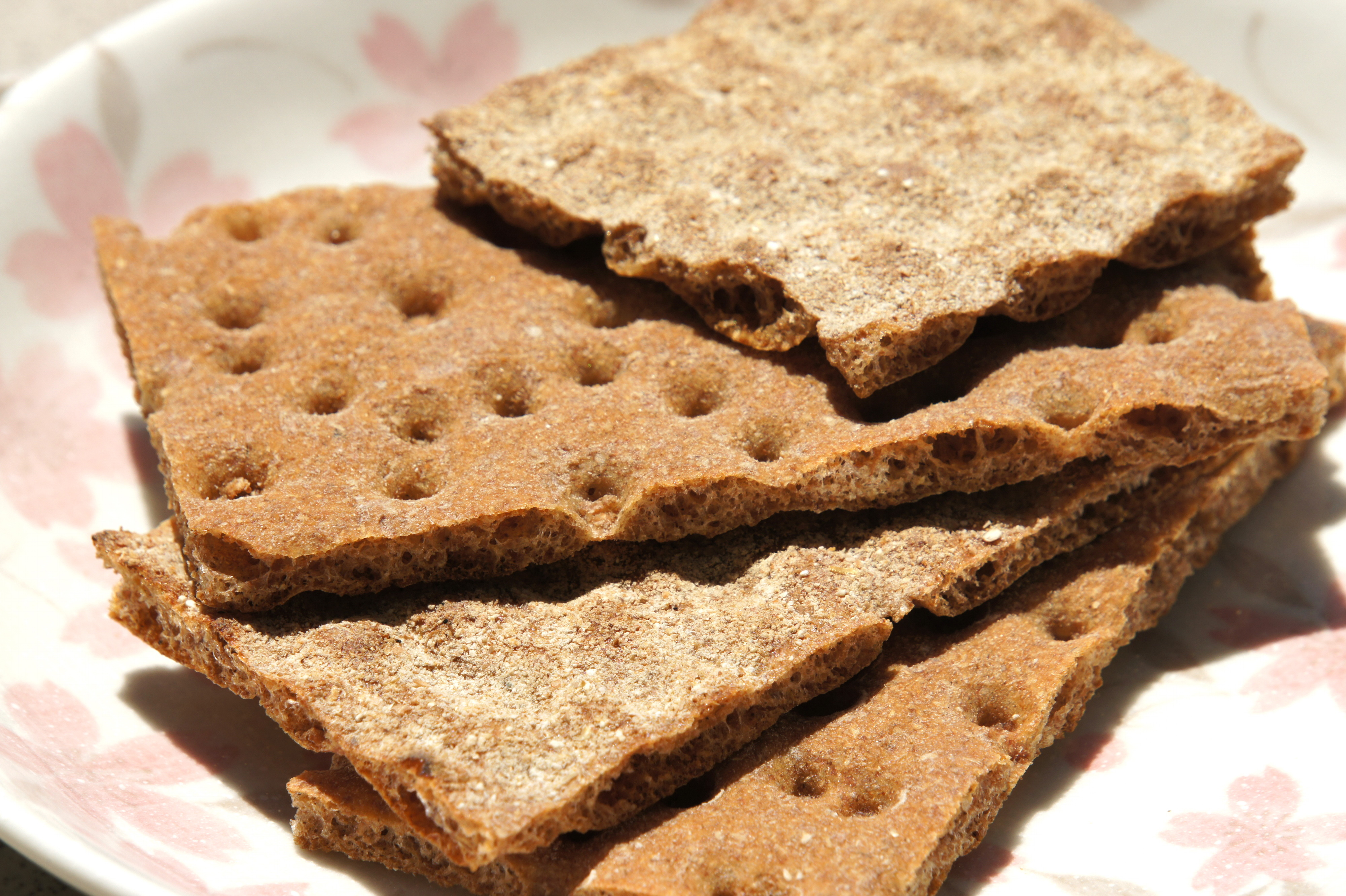 Swedish crisp bread